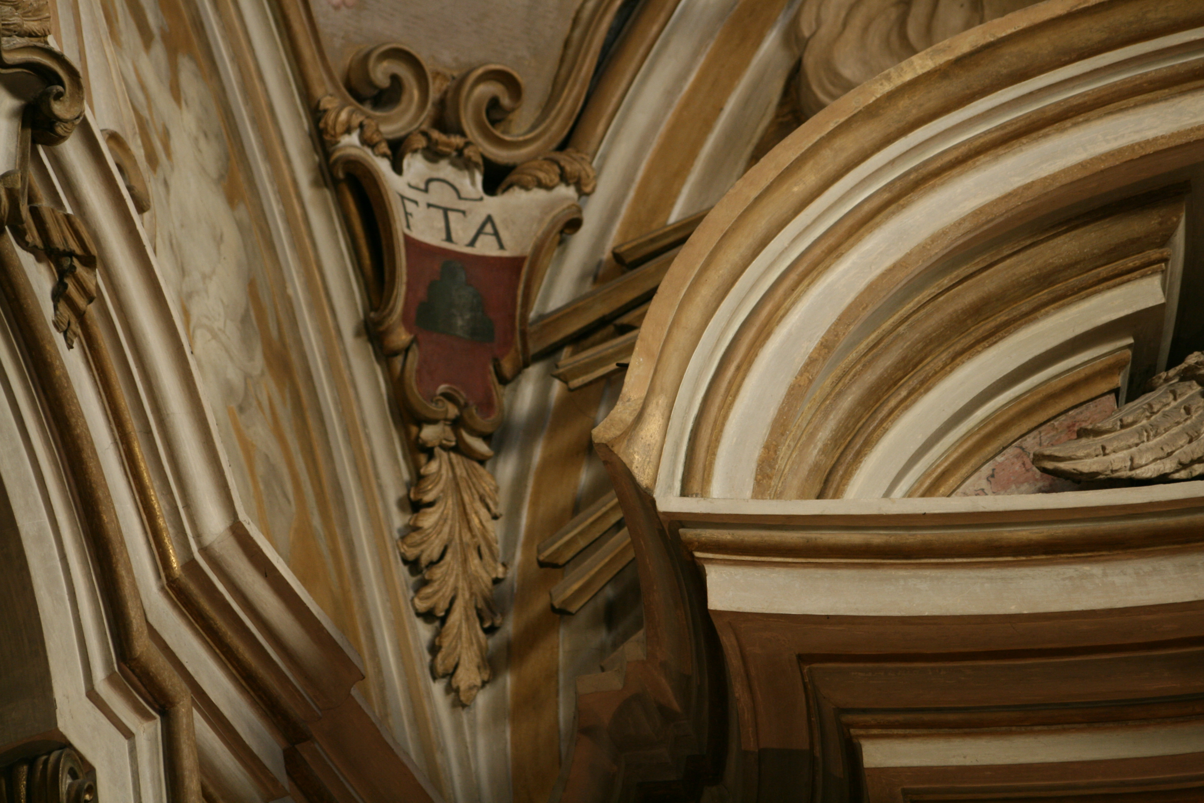 Baroque wooden moldings, and Seal of the Holy Milk Brotherhood cartouche — San Lorenzo Collegiate Church, Tuscany, Italy.